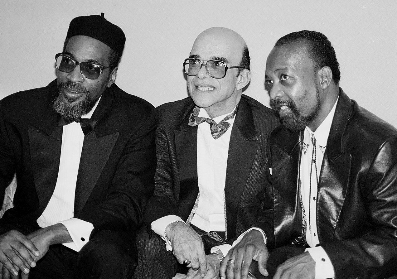 (That is philanthropist and former Tuskegee Airman "Percy Sutton" between them ) From Wash D.C. 1995